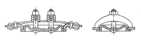 Boiler Manhole Section through the access manhole of a boiler